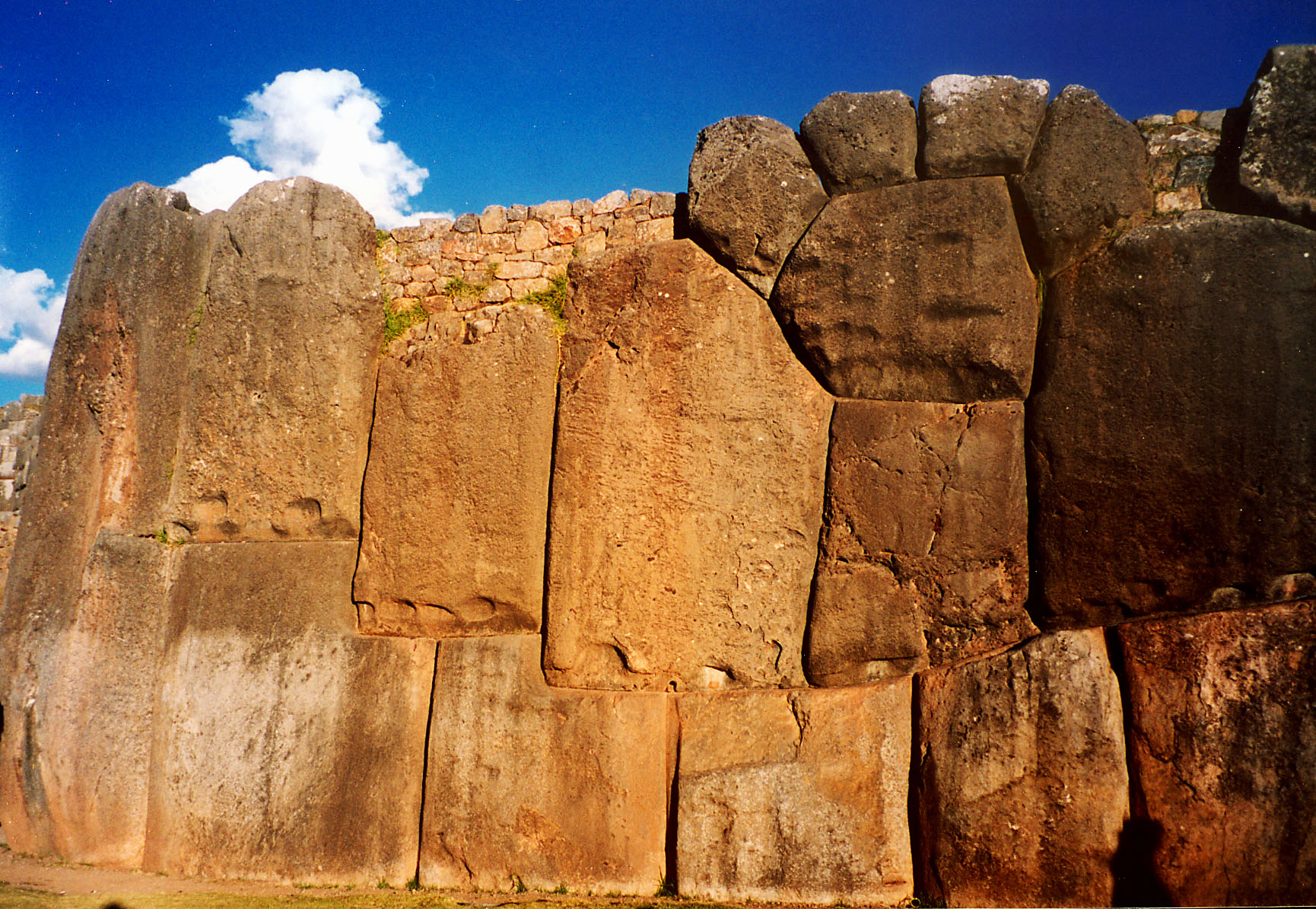 Sacsahuamán (Sacsayhuamán), Cusco, Peru. The photo was taken in June 2002 by Håkan Svensson (Xauxa).